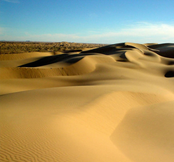 Sonora desert of altar